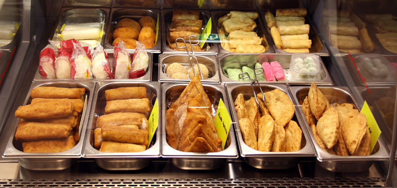 Mixed assorted Indonesian fritters called 'Gorengan' , from goreng "to fry" on display in one of the many Indo (ie Dutch-Indonesian) Tokos in Amsterdam, The Netherlands, 2011.